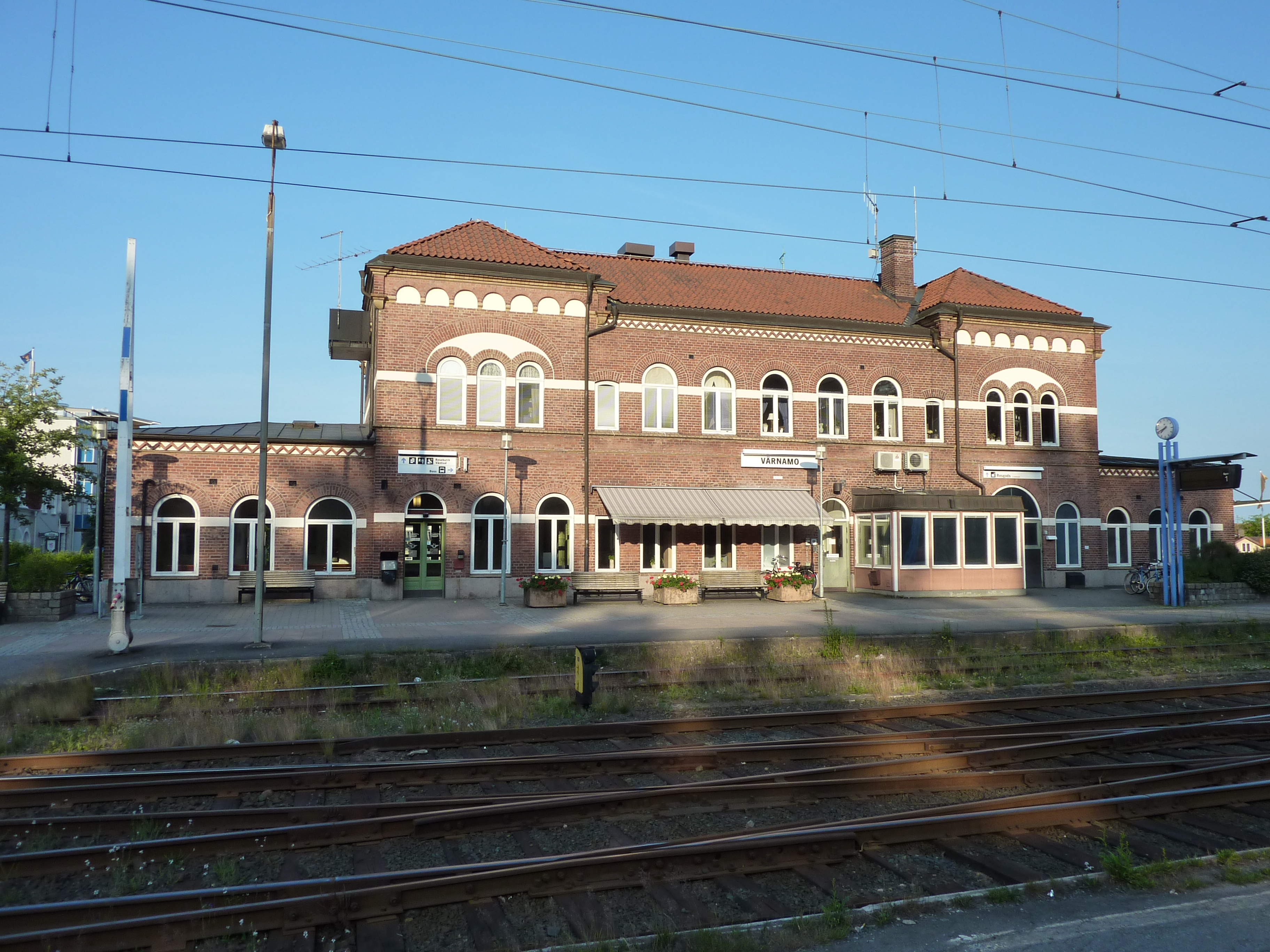 Railway station Värnamo in Sweden